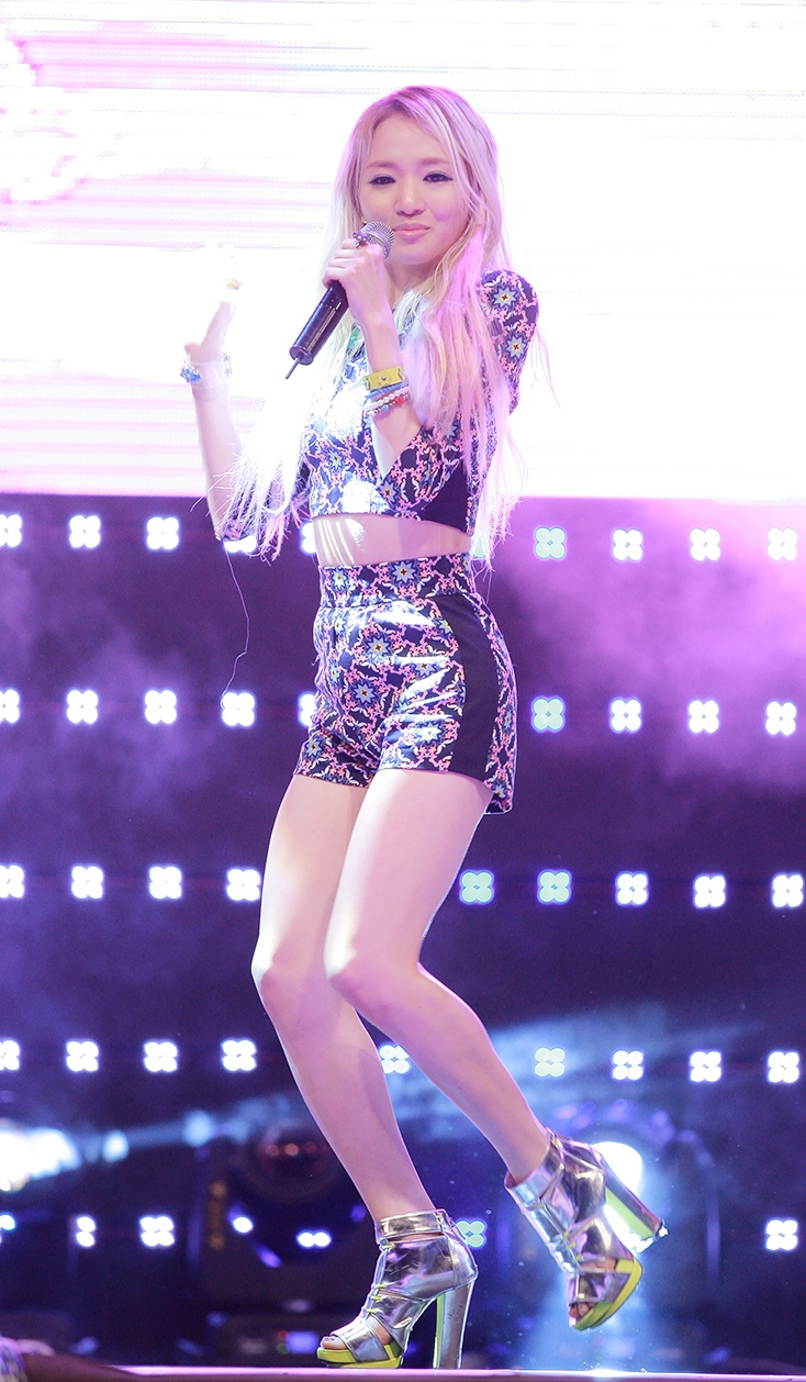 Sojung Lee in October 13, 2013.